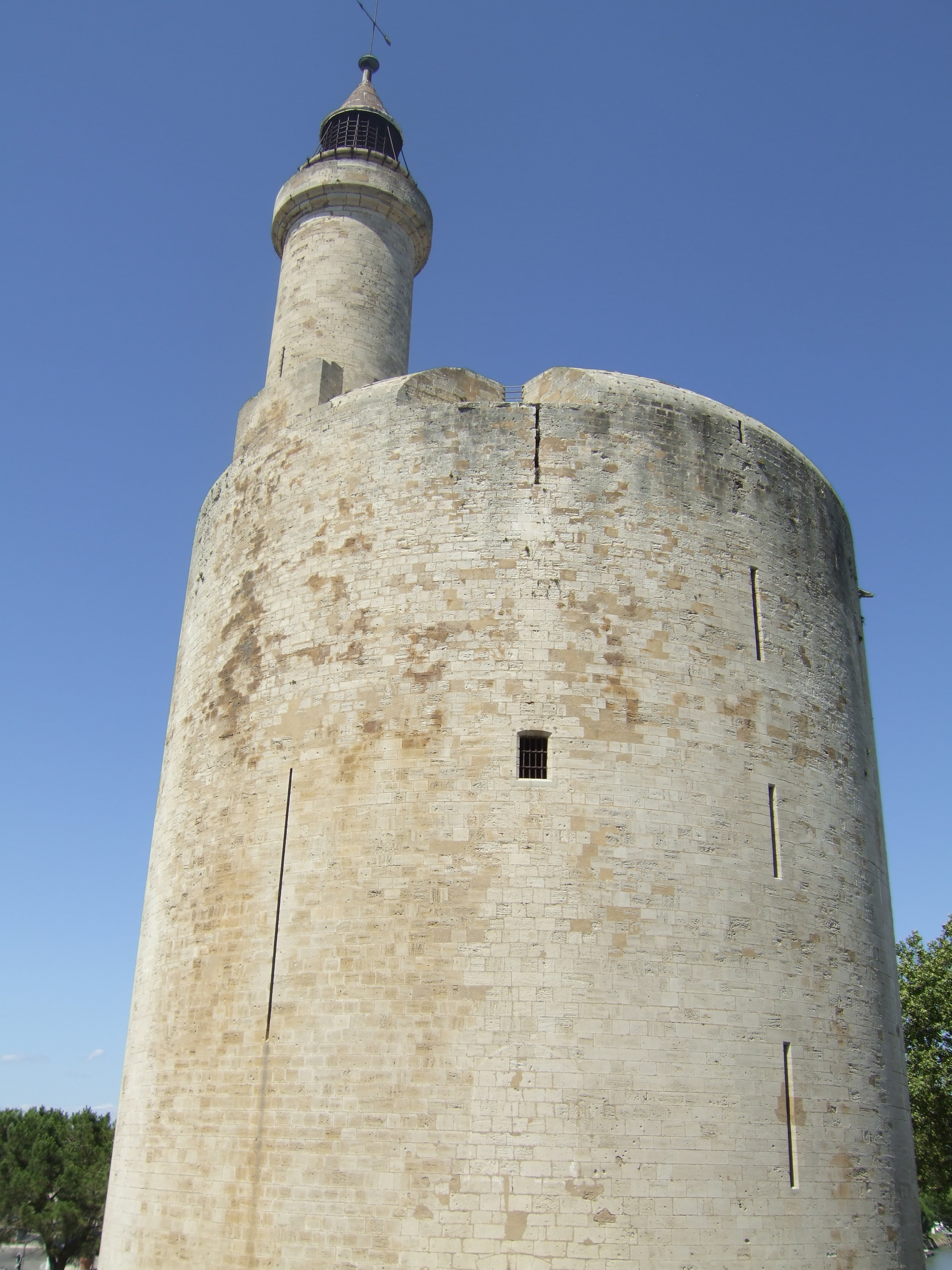 Constance tower at Aigues-Mortes (Province - France)